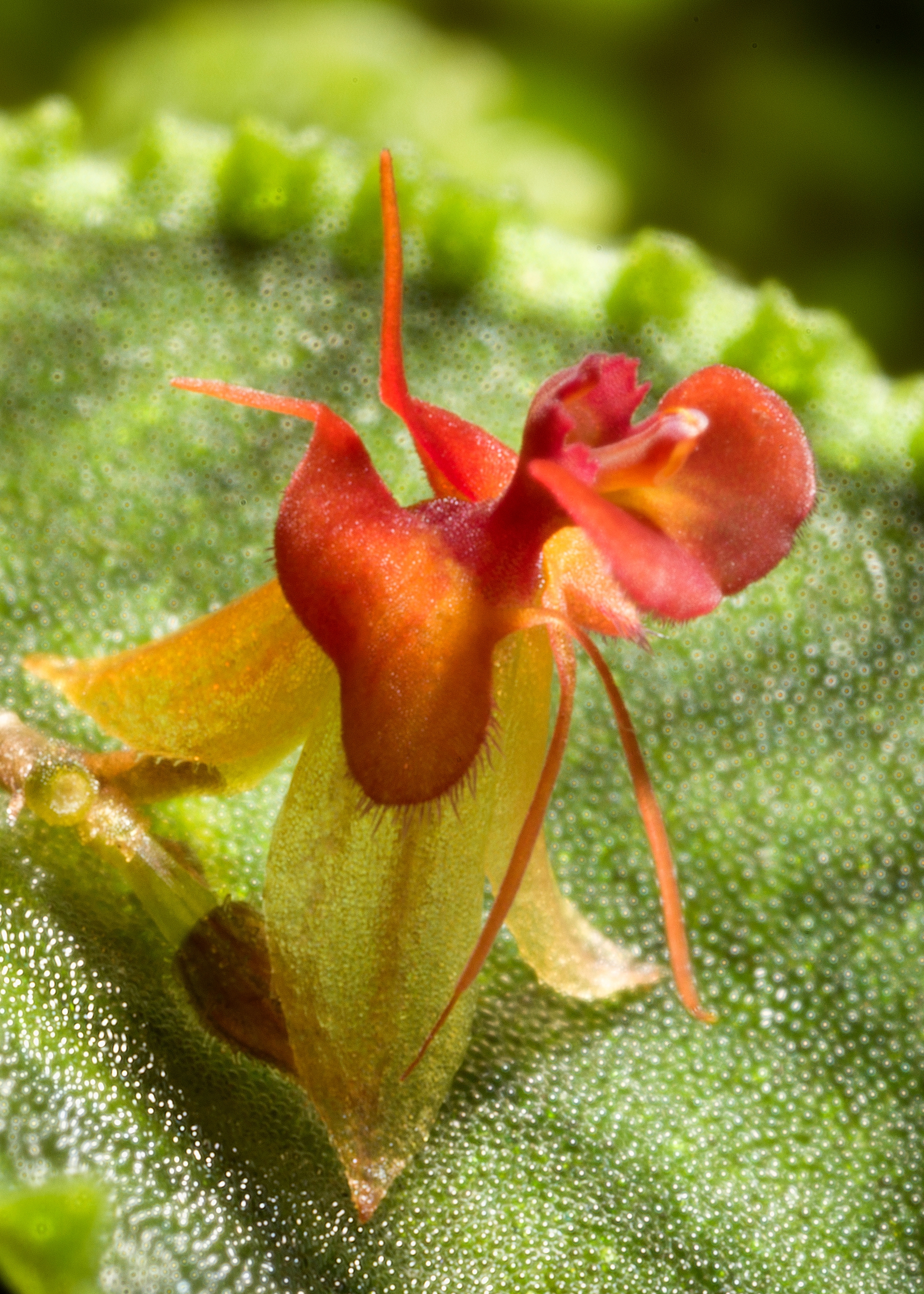 Distribution: W. Colombia to W. Ecuador 83 CLM ECU Found in Southern America Western South America ColombiaEcuador Heterotypic Synonyms: Stelis calodyction Spruce, Rep. Exped. Cinchona: 43 (1862). Lepanthes calodictyon f. ivanoflava Grüss, Orchidee (Hamburg) 62: 206 (2011).